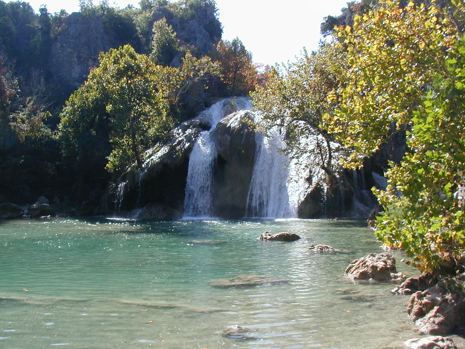 Turner Falls, the largest waterfall in Oklahoma, near Davis, Oklahoma, USA. Springs discharging from the Arbuckle-Simpson aquifer into Honey Creek are the source of water to Turner Falls.